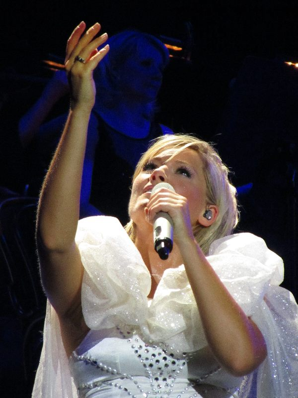 Helene Fischer in front of the audience in the Wiener Stadthalle (9000 people) May 2011 Best of Live with orchester